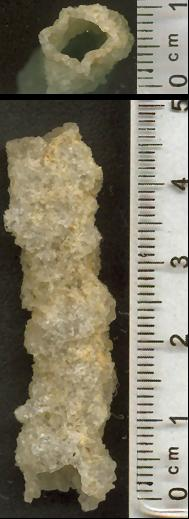 A Fulgurite from Okechoobee in Florida.